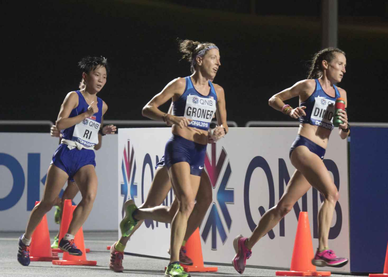 Women's marathon at the 2019 World Athletics Championships in Doha.